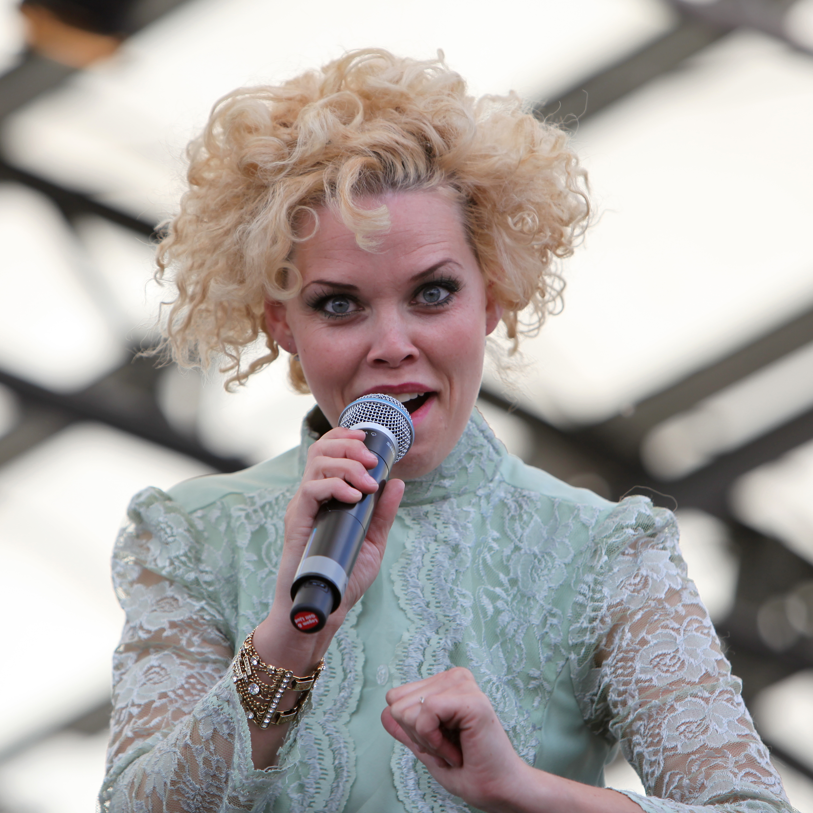 "Maja, söt och direkt" - The artist Maja Gullstrand performing at the National Day celebrations at Kungsträdgården in Stockholm on June 6 2009.